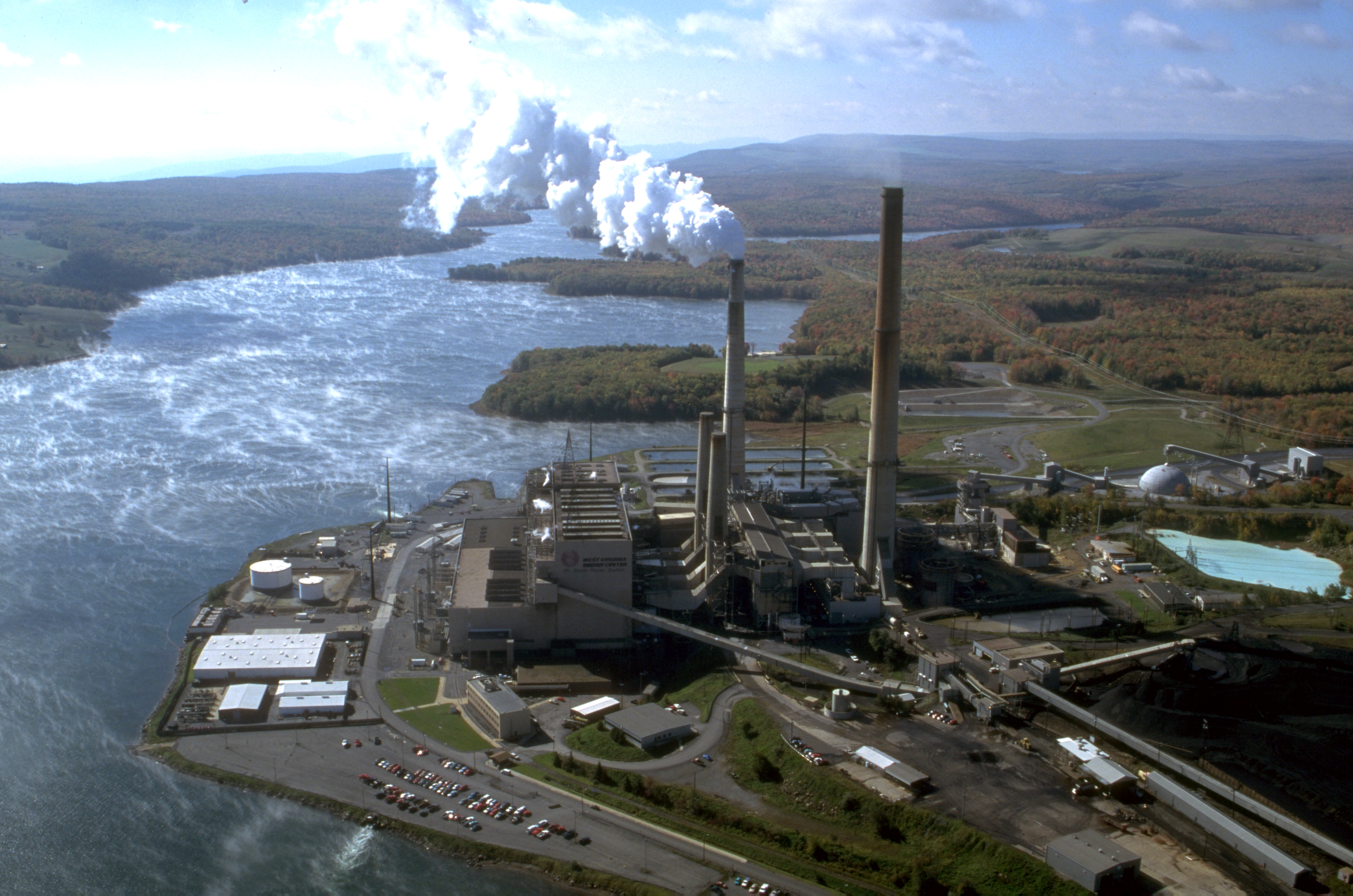 Aerial photograph of the Mount Storm power plant